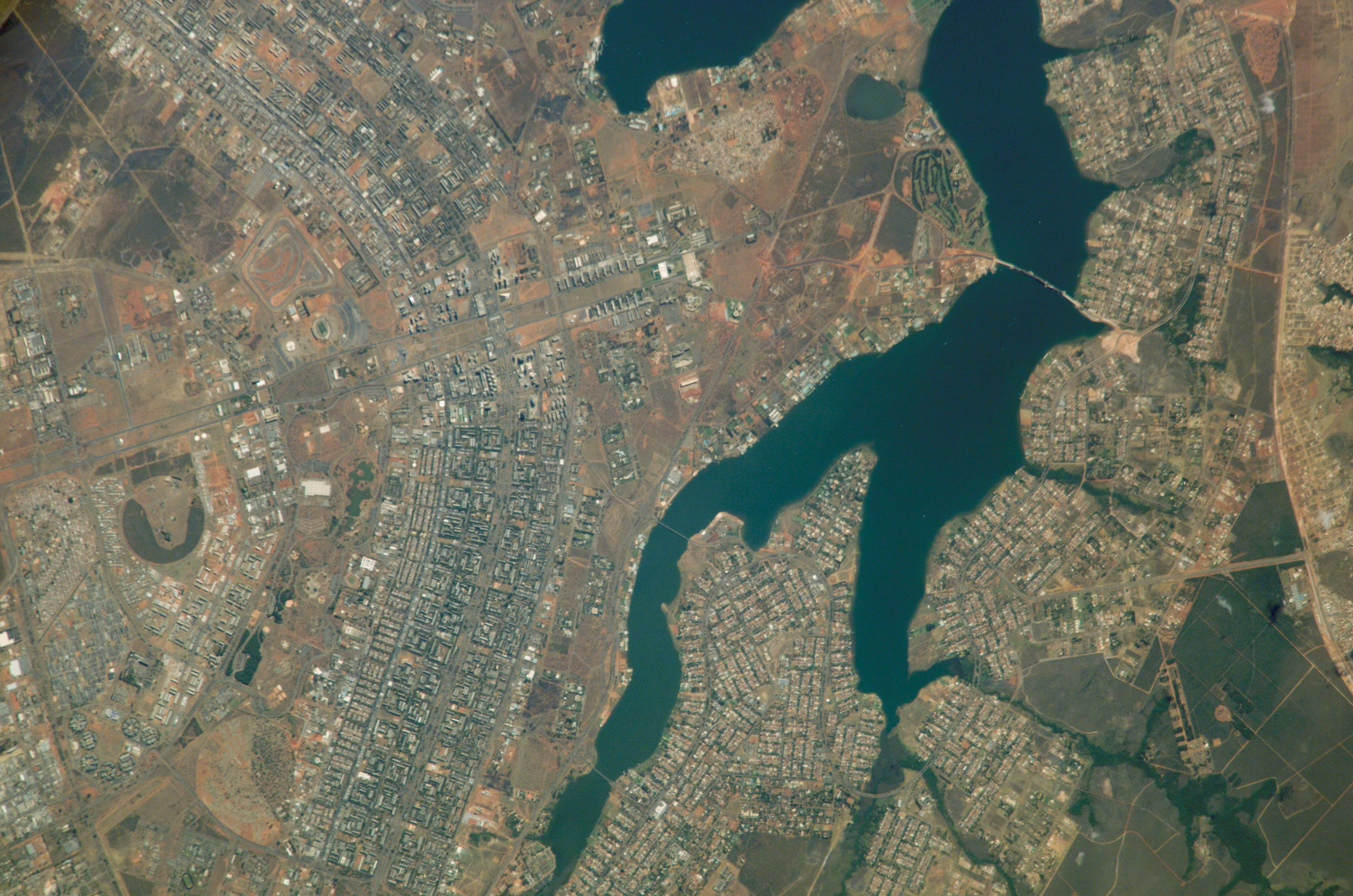 Brasília seen from the International Space Station in 2002.